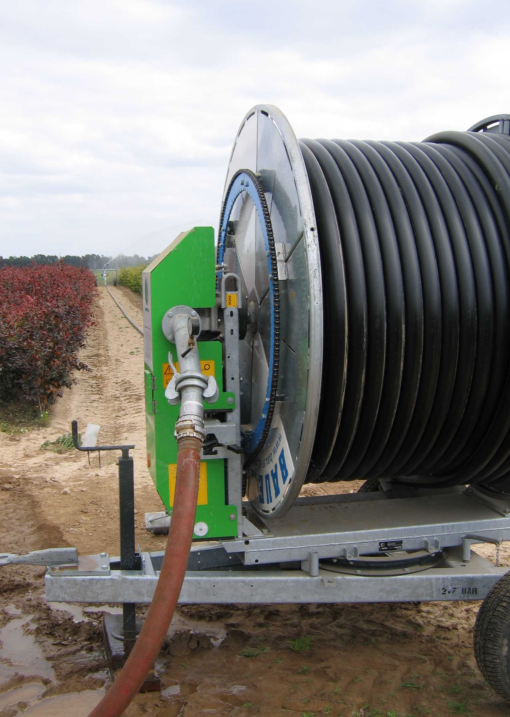 A picture of an automatically operating irrigation reel. The reel automatically reels in the waterhose on which a sprinkler is mounted. The sprinkler is also automated to move its waterbeam left to right (by pivoting), and the whole system is thus capable of irrigating a plot of land. Note that the waterpump (seperate from the reel-system) is mounted at a (not-shown) tractor, so that it is effectively powered by the tractors engine. See the TractorPoweringWaterpump-image to see the tractor with pump